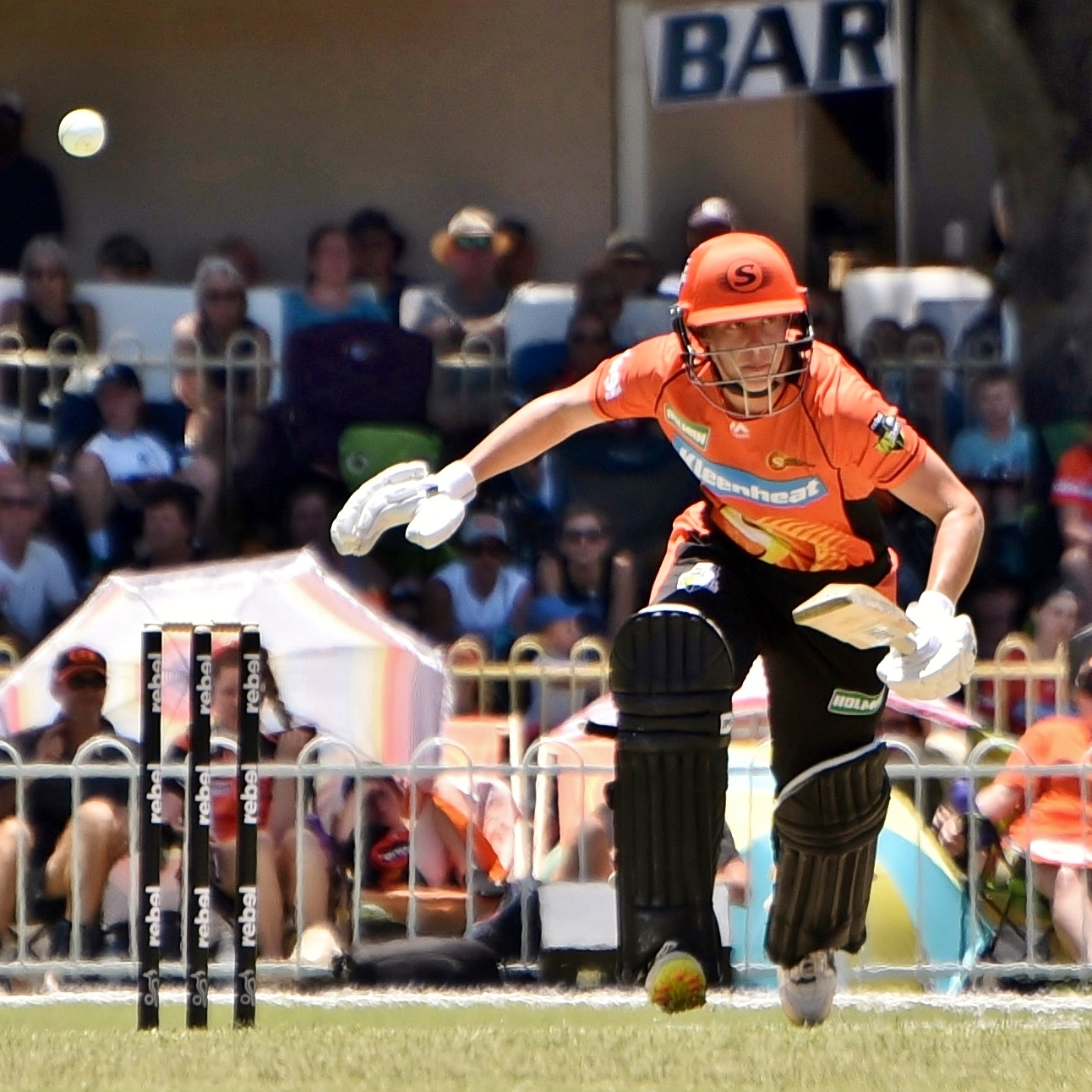 Perth Scorchers all-rounder Mathilda Carmichael batting against the Sydney Sixers, during a WBBL match at Lilac Hill Park in Perth